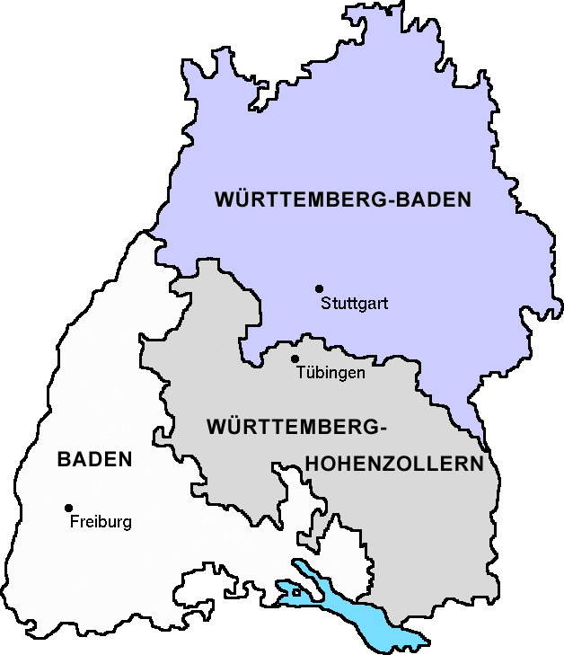 Location of Württemberg-Baden in post-war Germany Württemberg-Hohenzollern (Q262733) Württemberg-Baden (Q251660) Baden (Q261407) Lake Constance (Q4127)